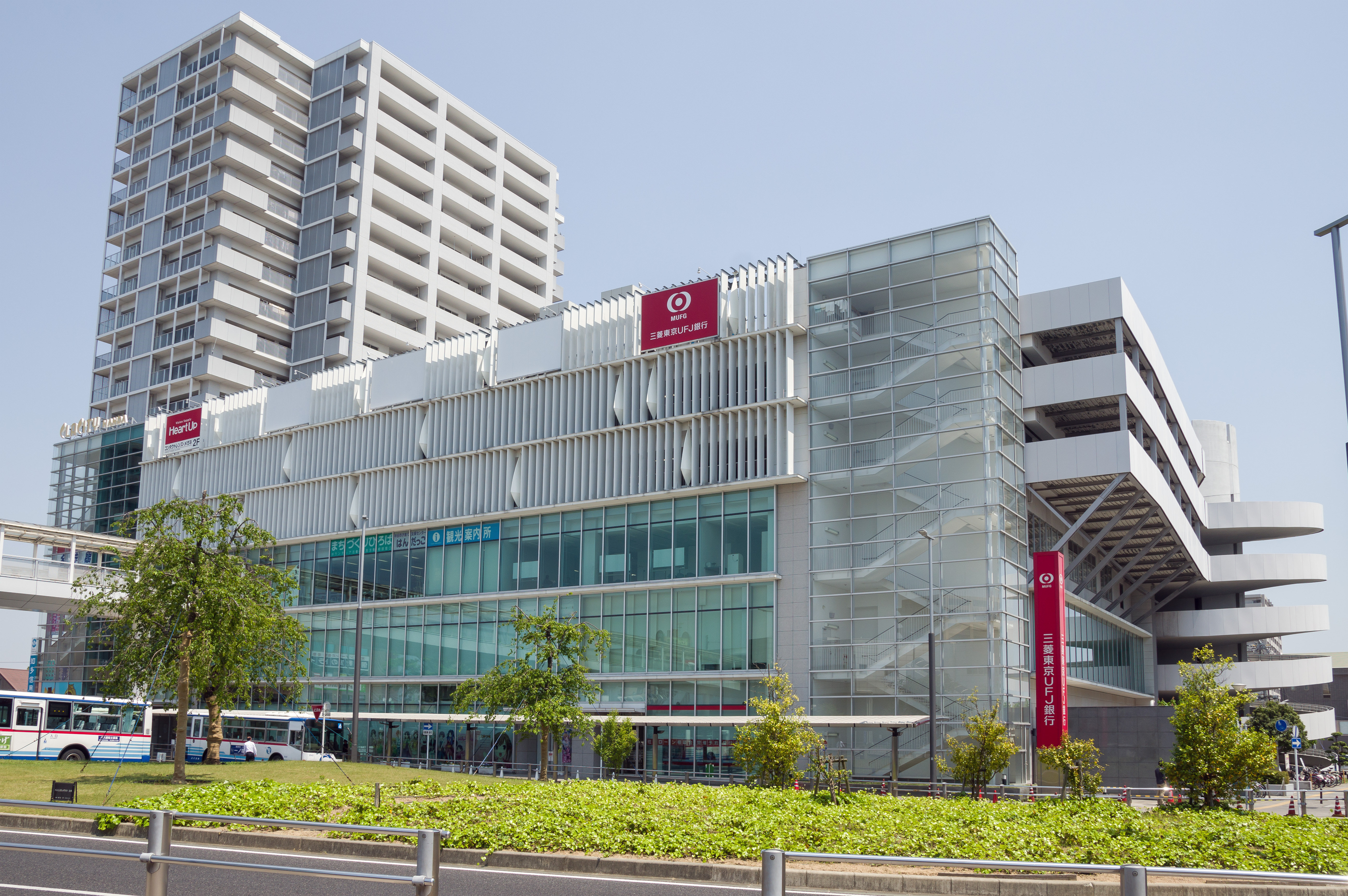 CLACITY HANDA, in Handa, Aichi, Japan.